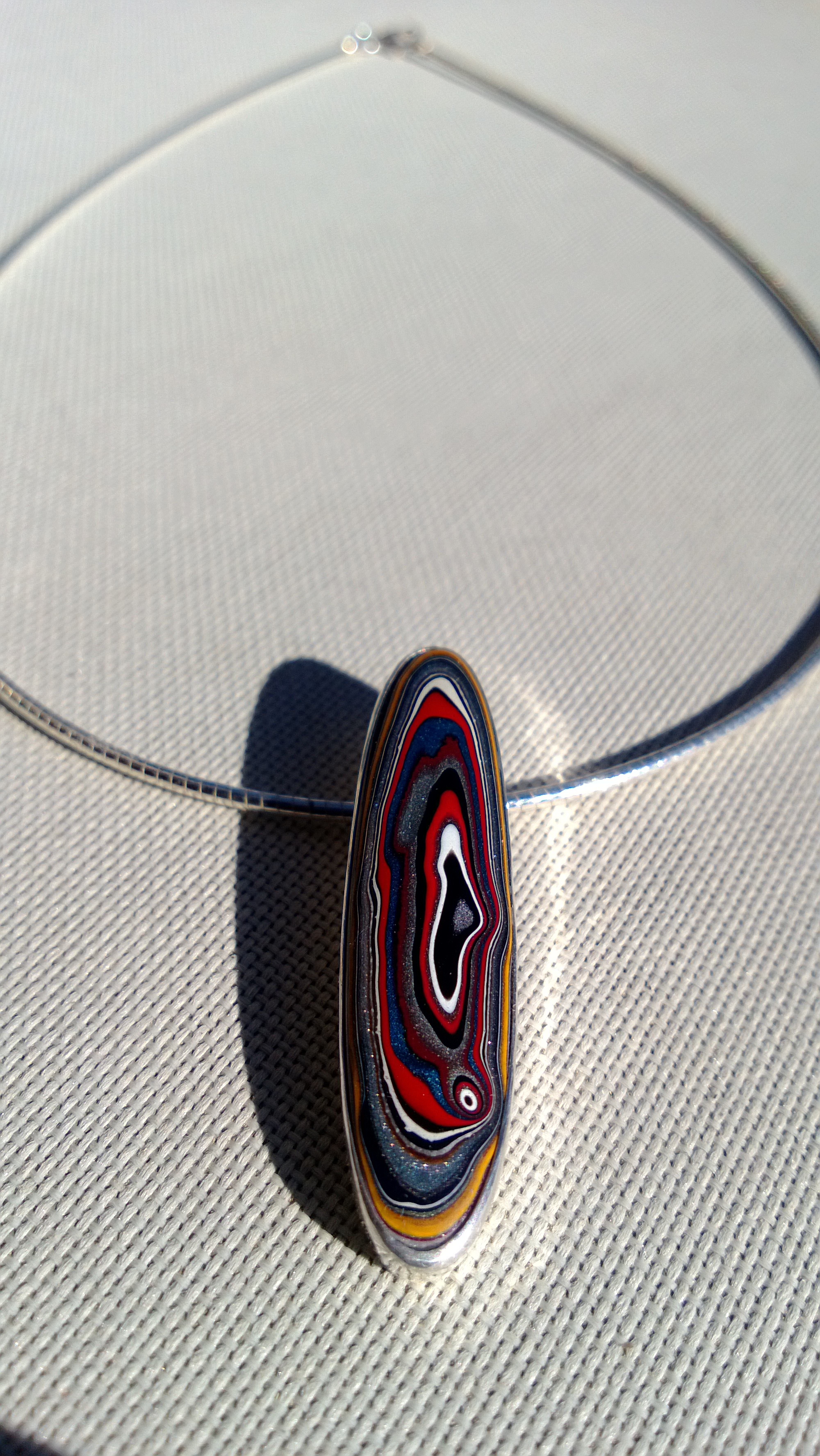 My favorite piece of jewelry I've made so far. The "stone" is Fordite.